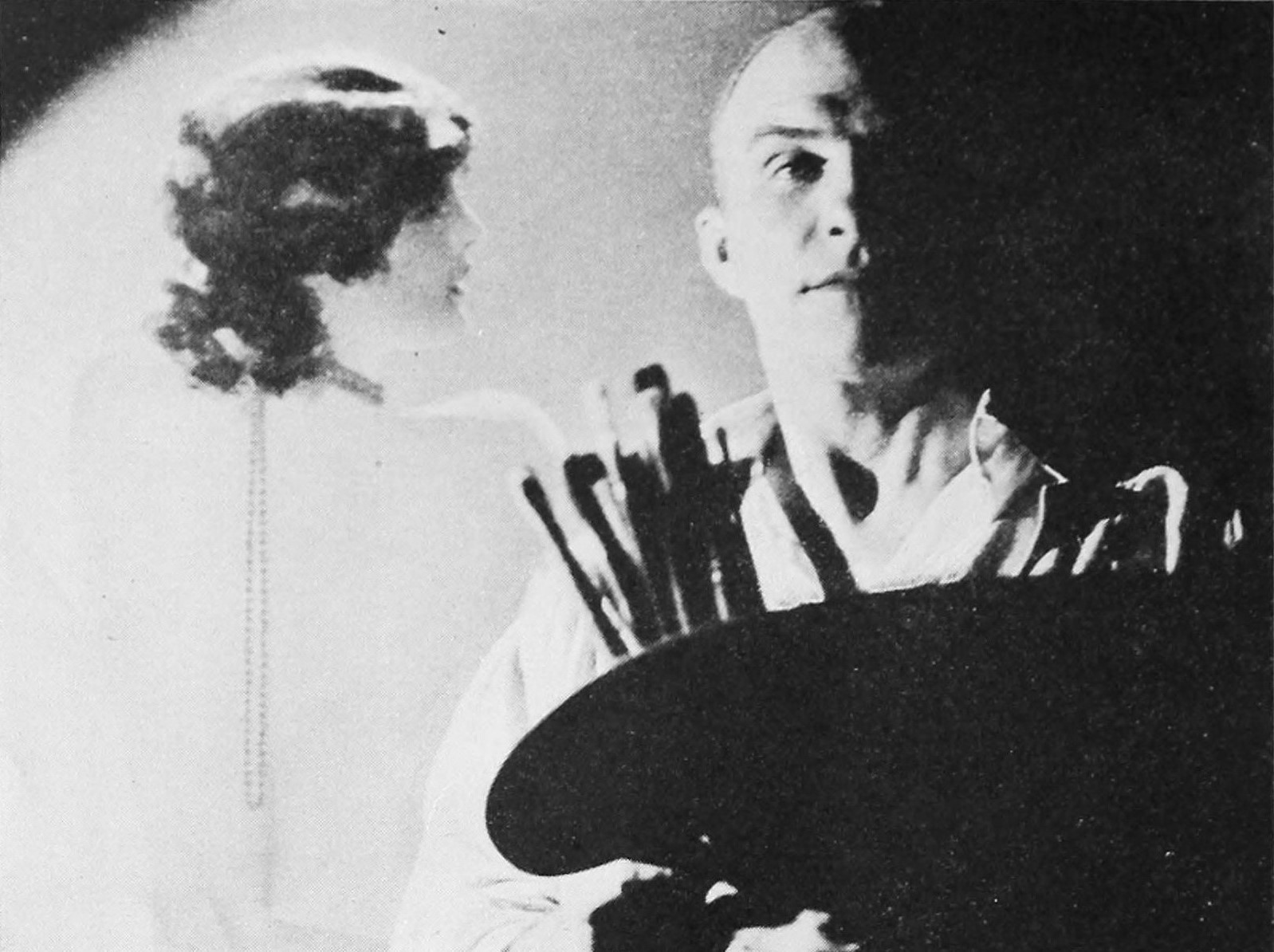 Screenland, Jan. 1930